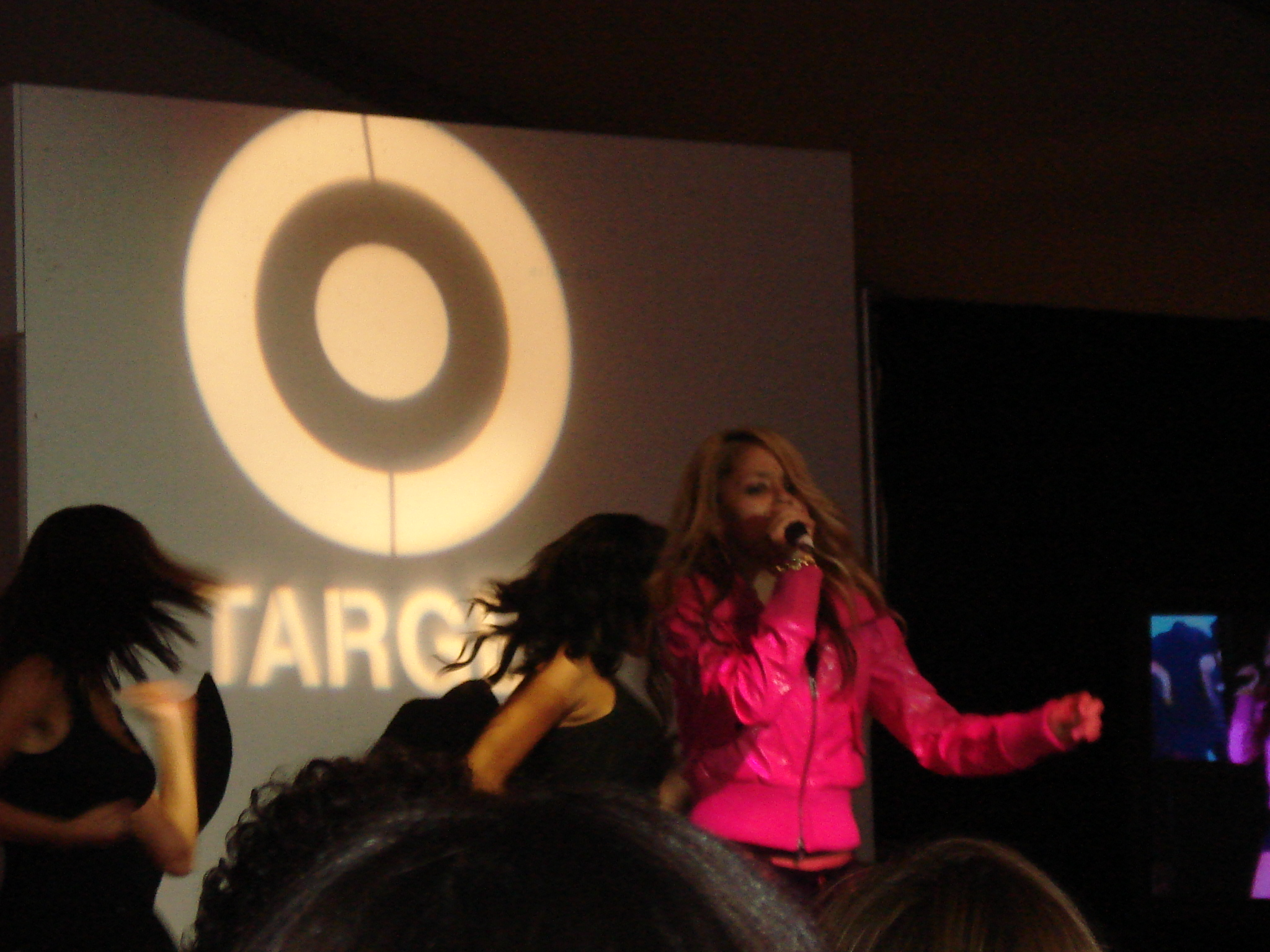 Kat DeLuna at a performance at the Brooklyn Fashion Week